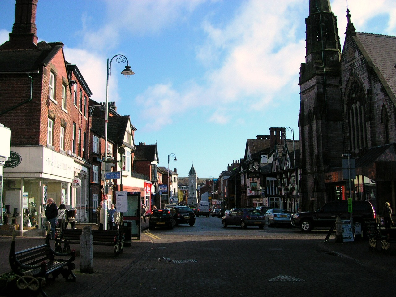 Derby Street, Leek, Staffordshire, England.